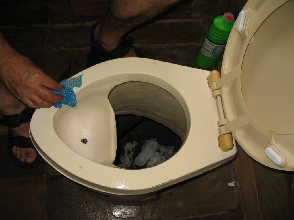 South Africa Photograph taken by E. von Muench in December 2006